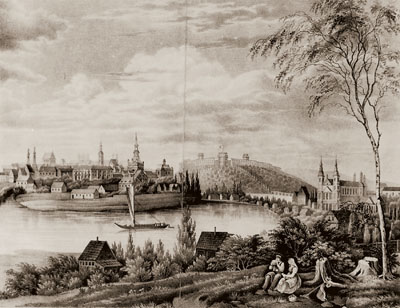 Poznań viewd from right bank of Warta